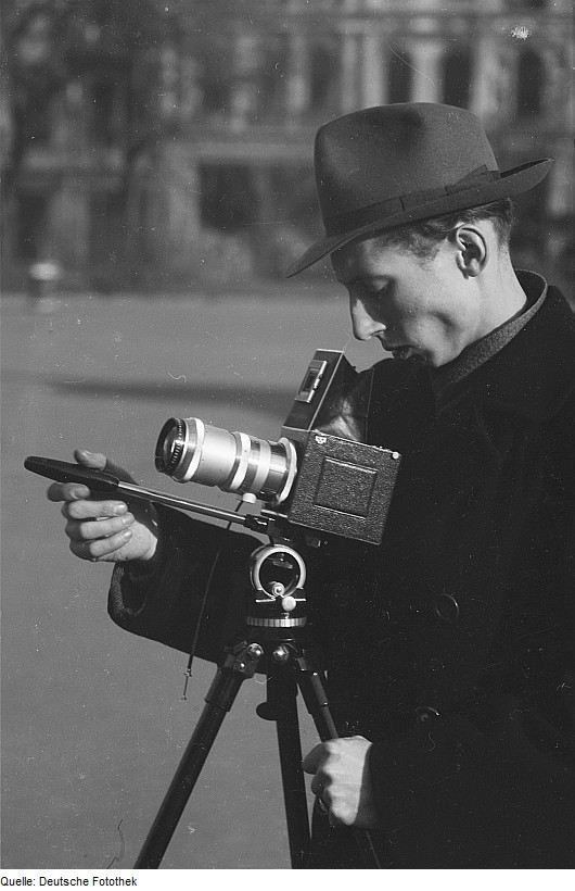 Original image description from the Deutsche FotothekFotograf